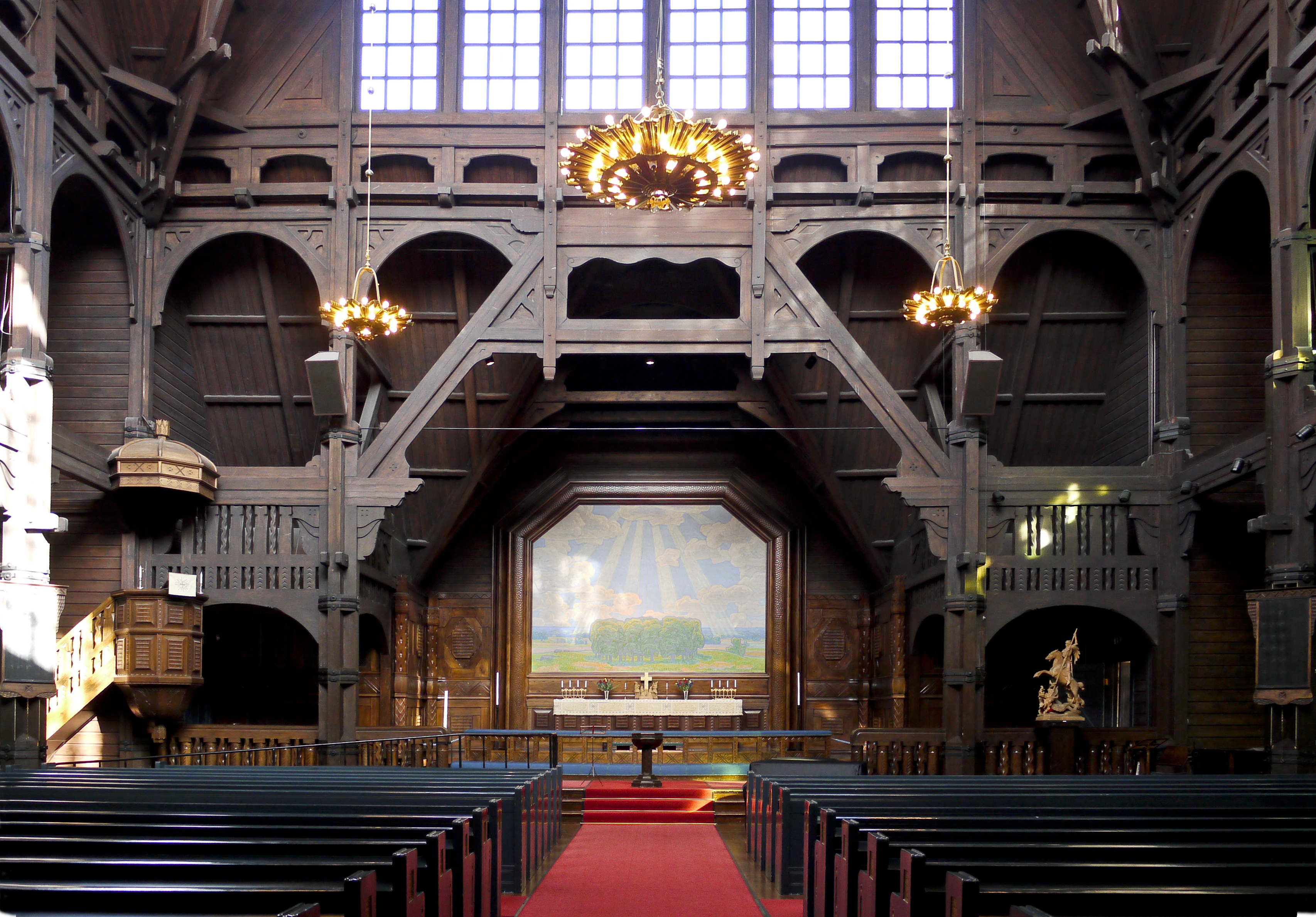 Kiruna kyrka/church, Diocese of Luleå, Kiruna, Sweden. Nave-altar.